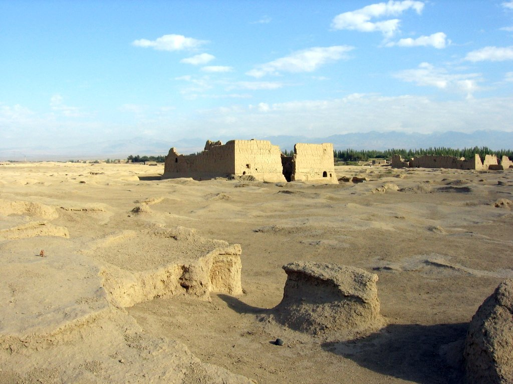 Turfan (Turpan/Tulufan) is an oasis city in the Xinjiang Uygur Autonomous Region of the People's Republic of China. Jiaohe ruins.